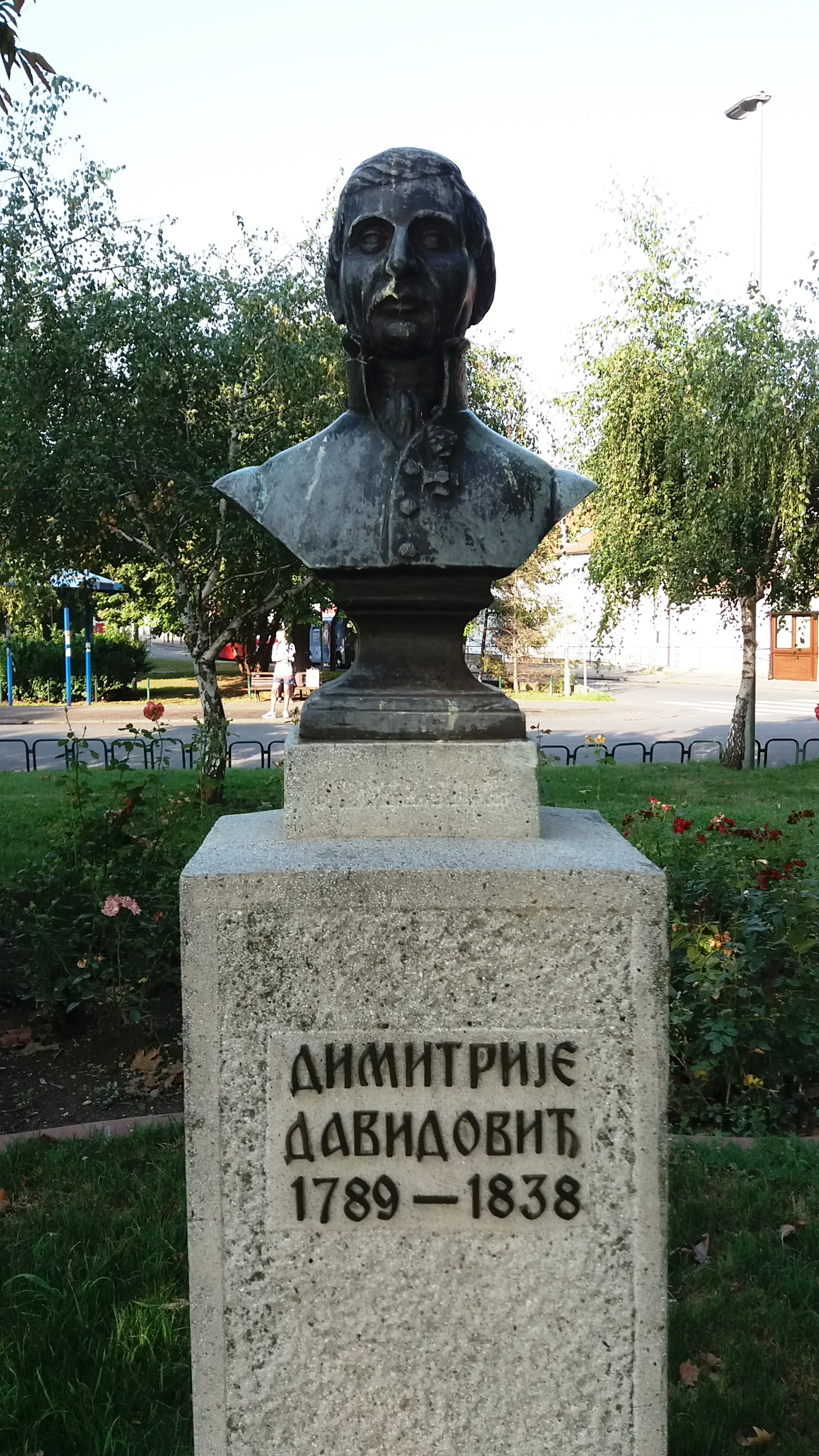 Memorial bust to Dimitrije Davidović, Zemun Quay, Zemun